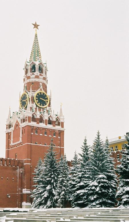 The famous Spasskaya tower, with its ruby star added in 1937. The Kremlin Wall Necropolis is in the foreground.